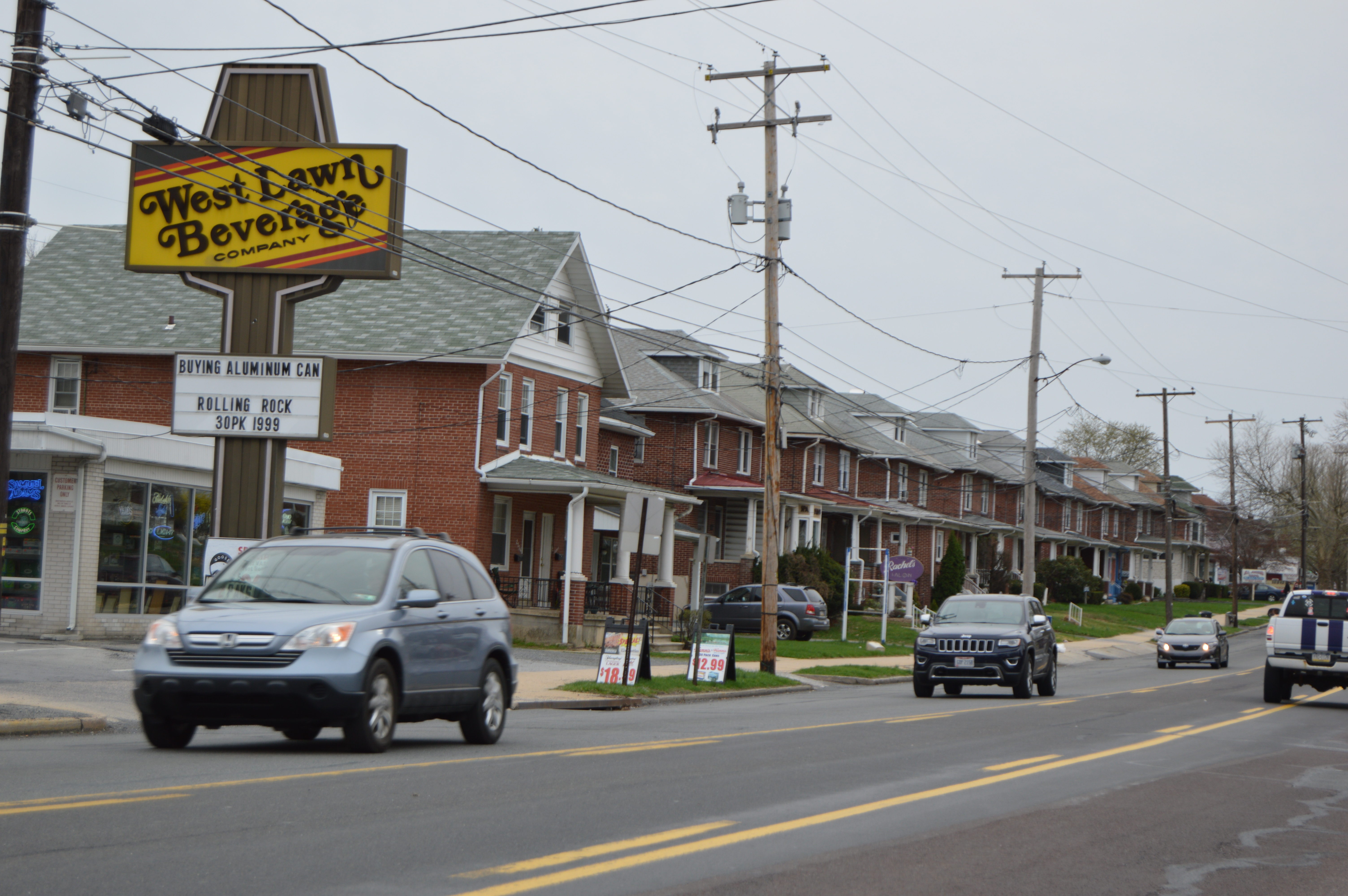 Buildings on the southern side of Penn Avenue (U.S. Route 422) west of Woodside Avenue in West Lawn, Pennsylvania, United States.